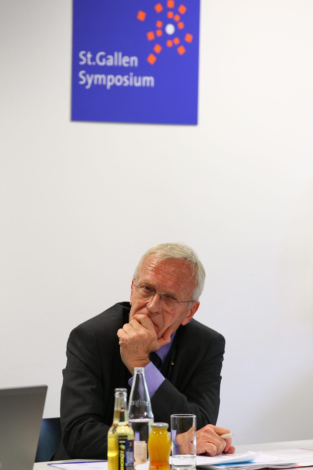 Joachim Bitterlich in May 2012 at the 42. St. Gallen Symposium at the University of St. Gallen